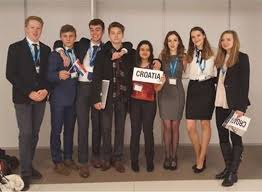 8 BIS students attending the THIMUN conference representing the delegation of Croatia. From left to right: Moritz Kneuer, Michael Schmid, Edward Whitehead, Nikolai Beckmann, Annika Arora, Amelie Bauer, Ilinca Roibu, Karolina Zentrichova.